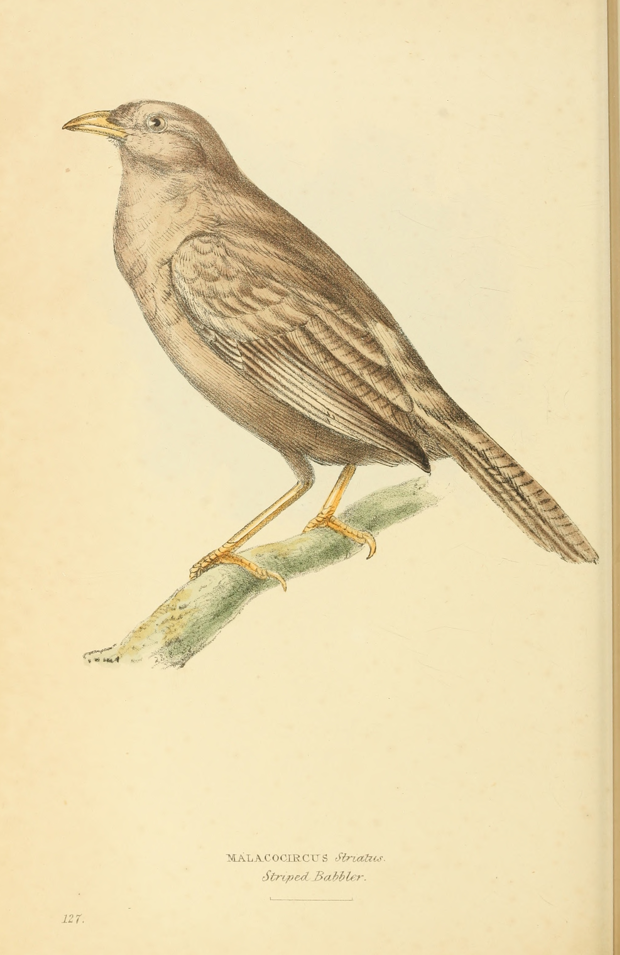 Plate from Zoological illustrations, Volume 3, 2nd series. Striated Babbler. Malacocircus striatus Sw. (nec Dumont). Accepted as Turdoides affinis Ripley (1958) p.10